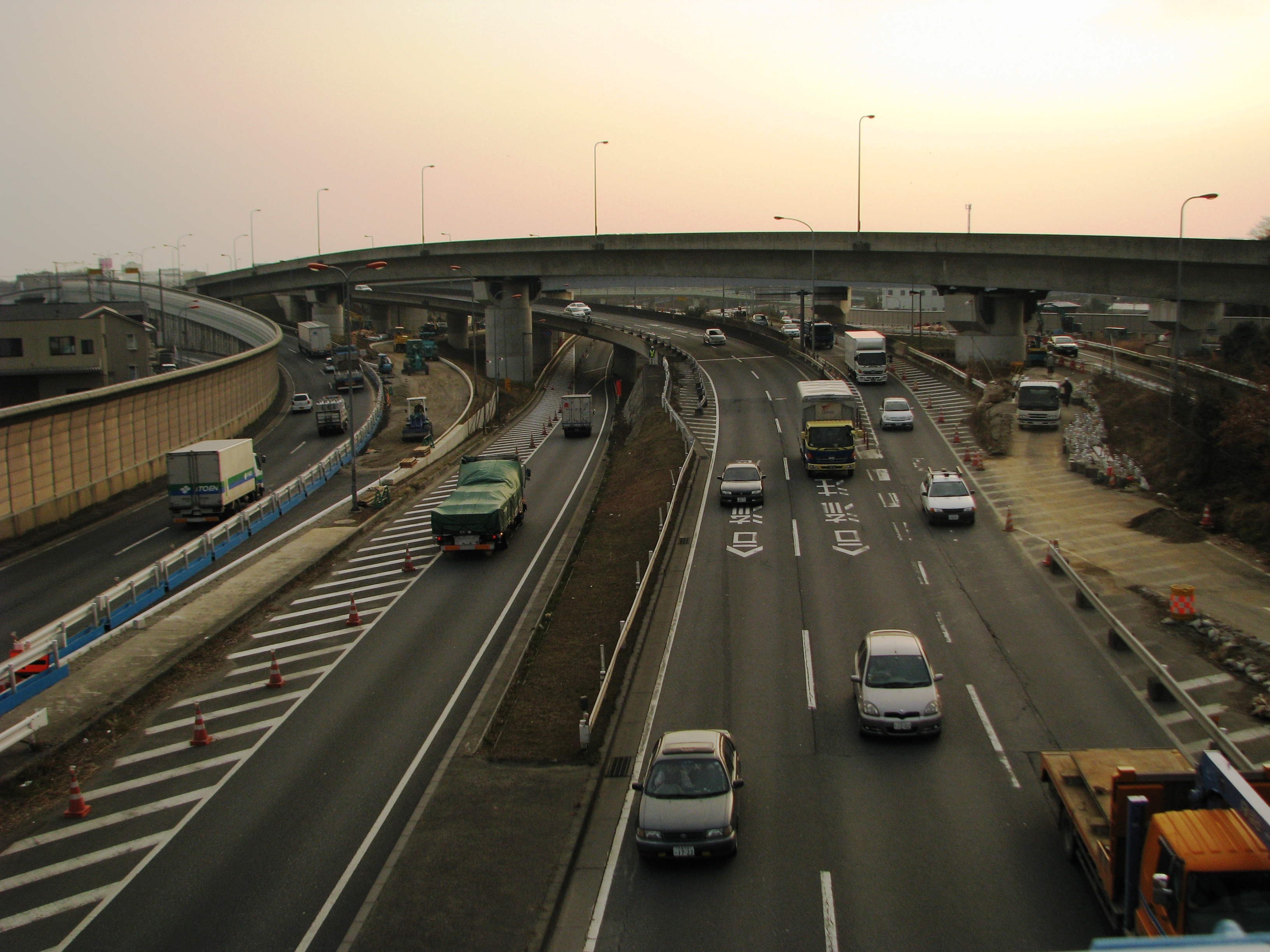 Miyamae Interchange on the Nishi-Omiya Bypass (Route 16) & Shin-Omiya Bypass (Route 17)